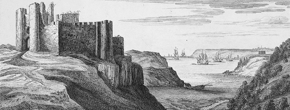 The north east view of Pennarth castle, in the county of Glamorgan - trimmed and cleaned